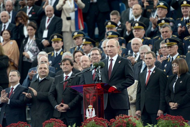 Putin speech at military parade to mark the 70th anniversary of the liberation of Belgrade. 16th October 2014